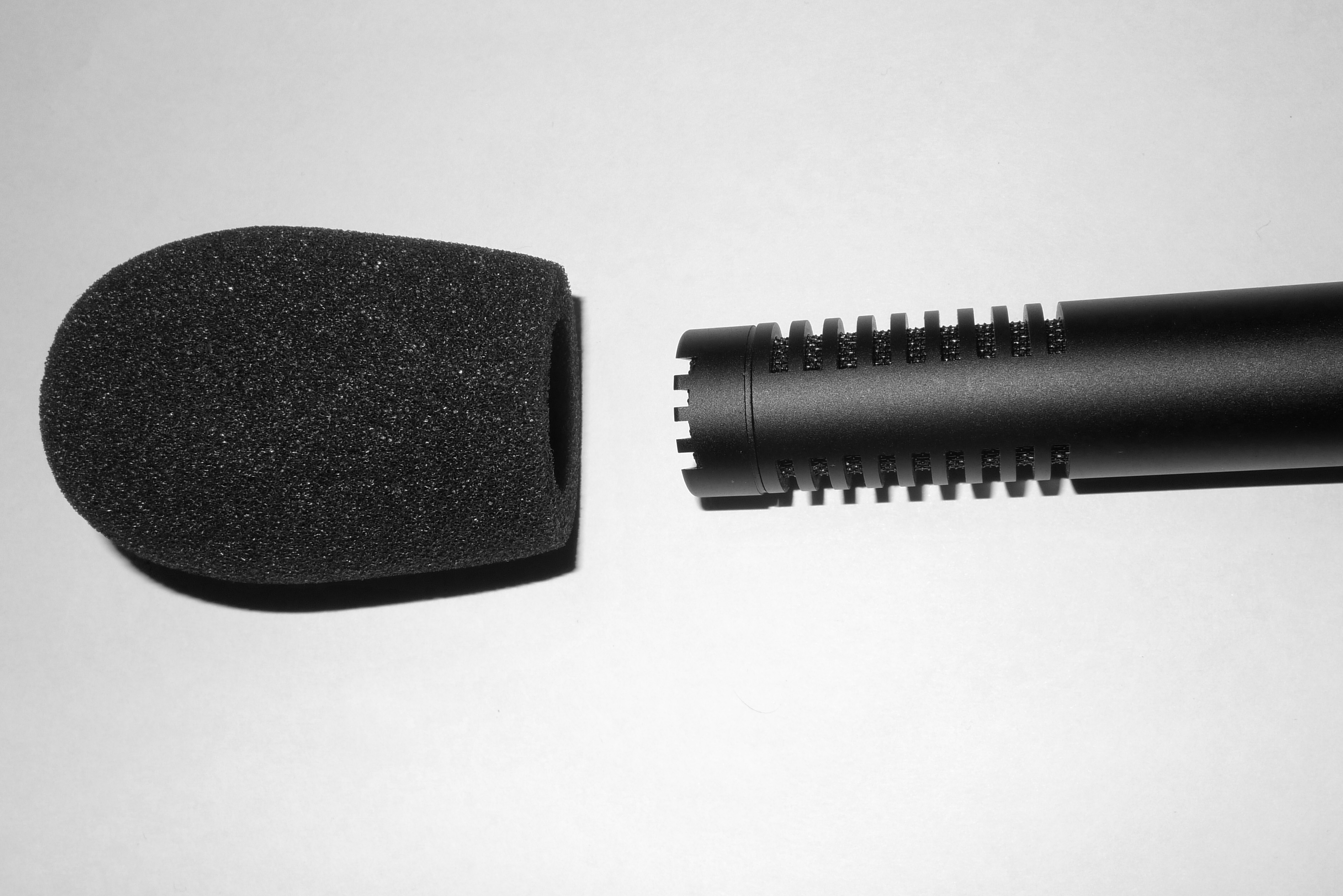 Microphone with its cover removed.